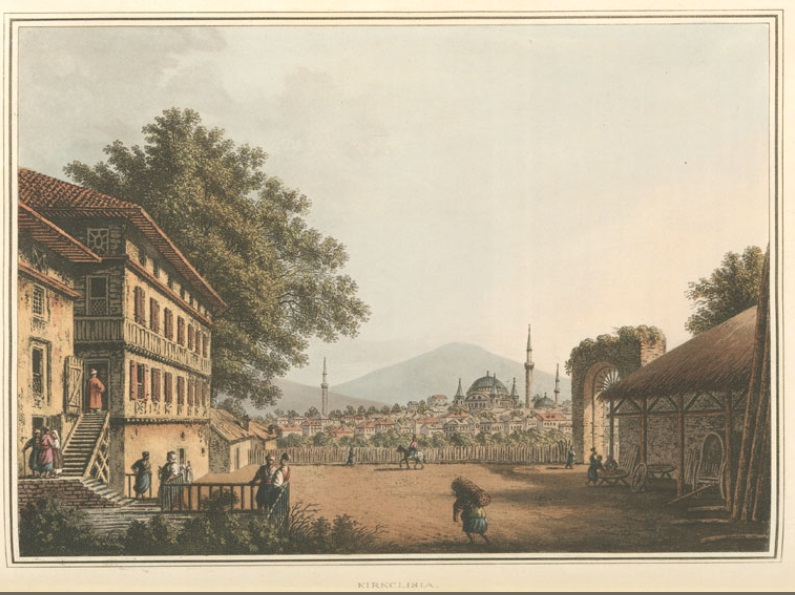 The town of Kirkclisia/ Lozengrad, nowadays Kirklareli, Turkey